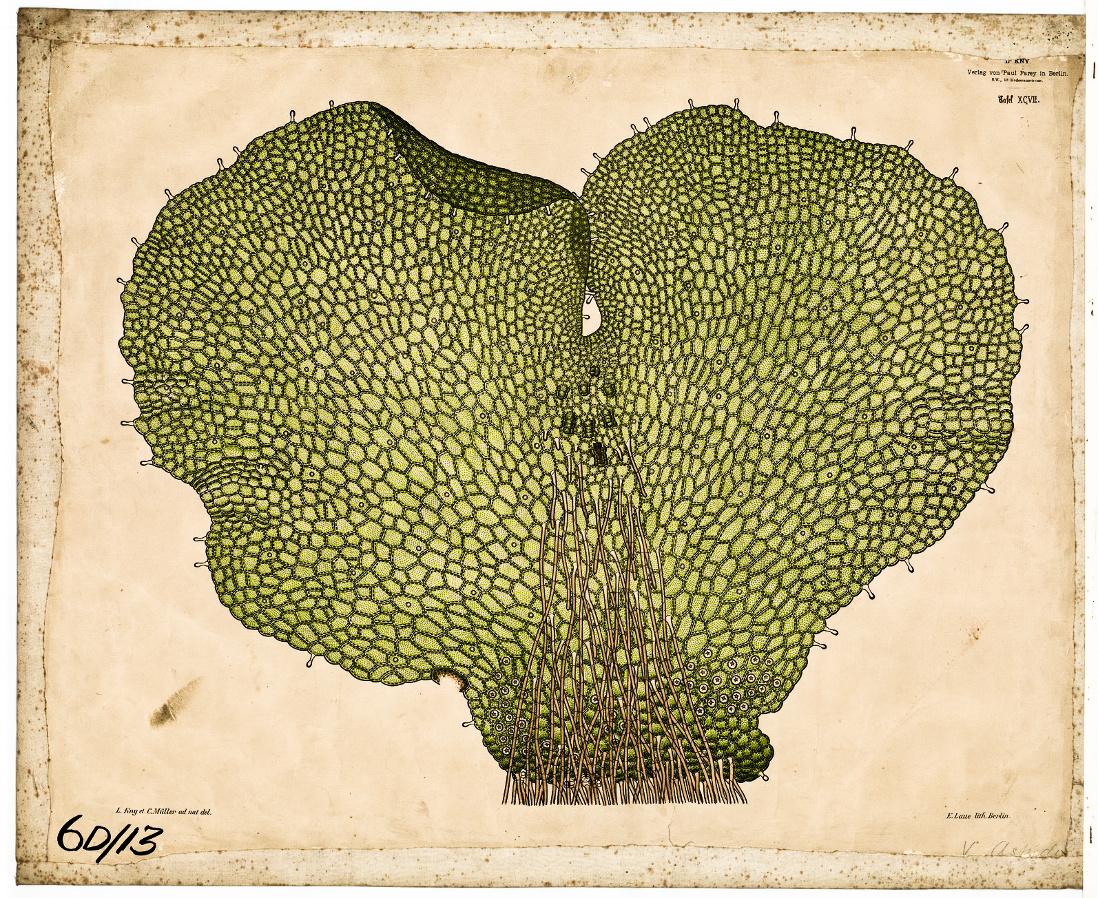 For background and links, please see: Prothallus of an Aspidium species